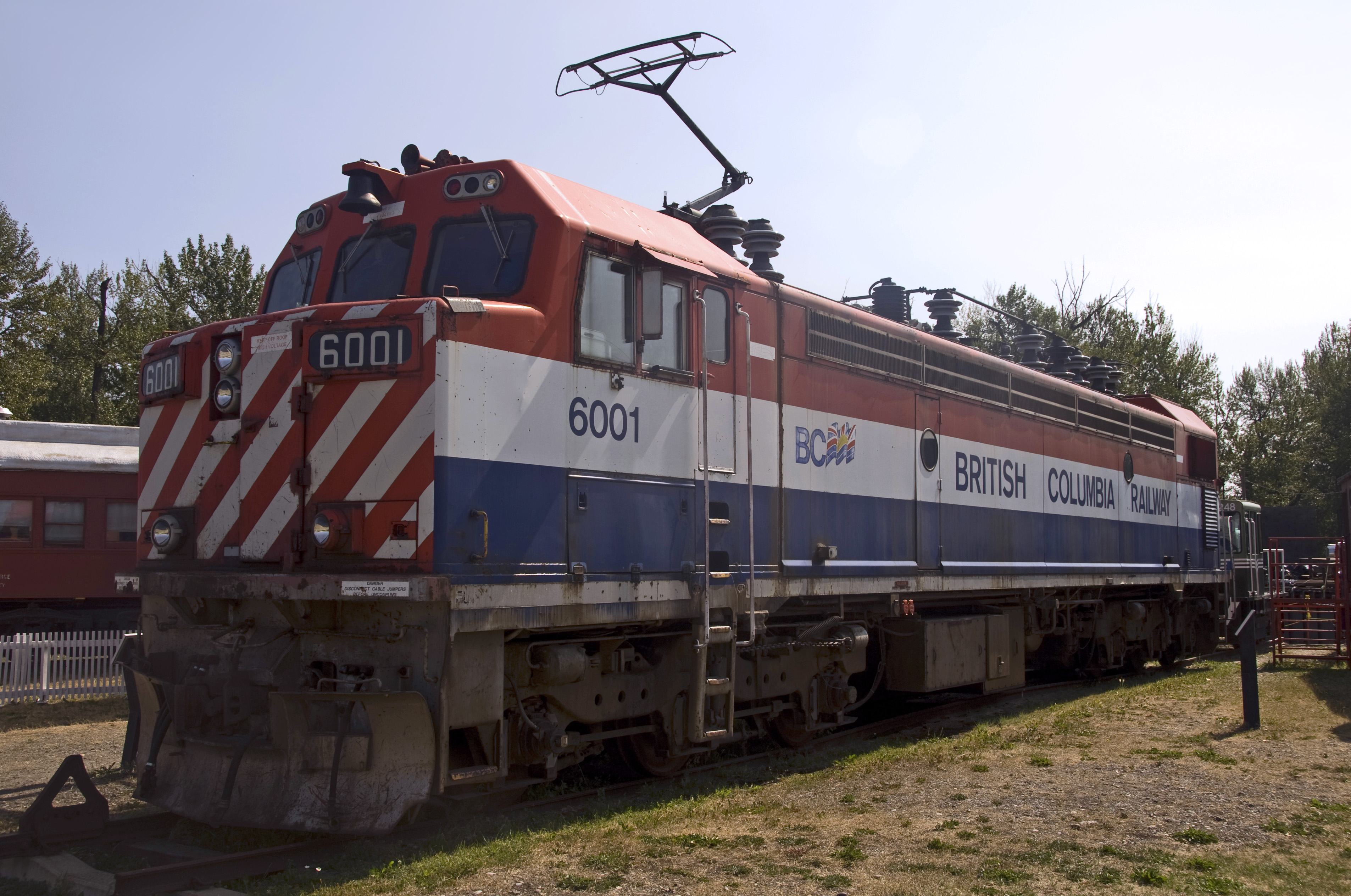 BC Rail (formerly British Columbia Railway) GMD GF6C no. 6001 at Prince George Railway and Forestry Museum. Seven of these units were built for use on the Tumbler Ridge Line, of which only this one remains.